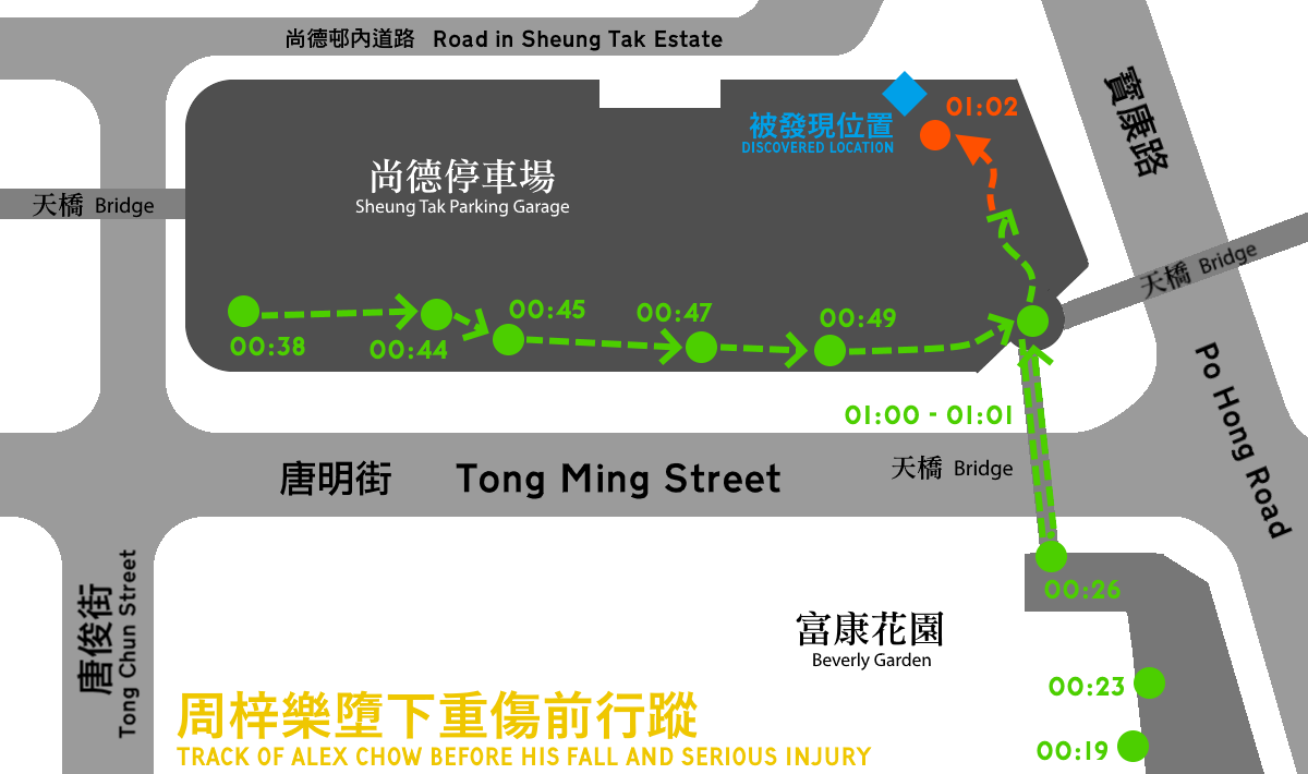 Track of Alex Chow, who died after Tseung Kwan O confrontation during Hong Kong protest, before his fall and serious injury. For a similar map for reference, see also Cheng, Kris (9 November 2019). "Hong Kong police call for coroner investigation into student's death as university president demands explanation over ambulance delay". Hong Kong Free Press.